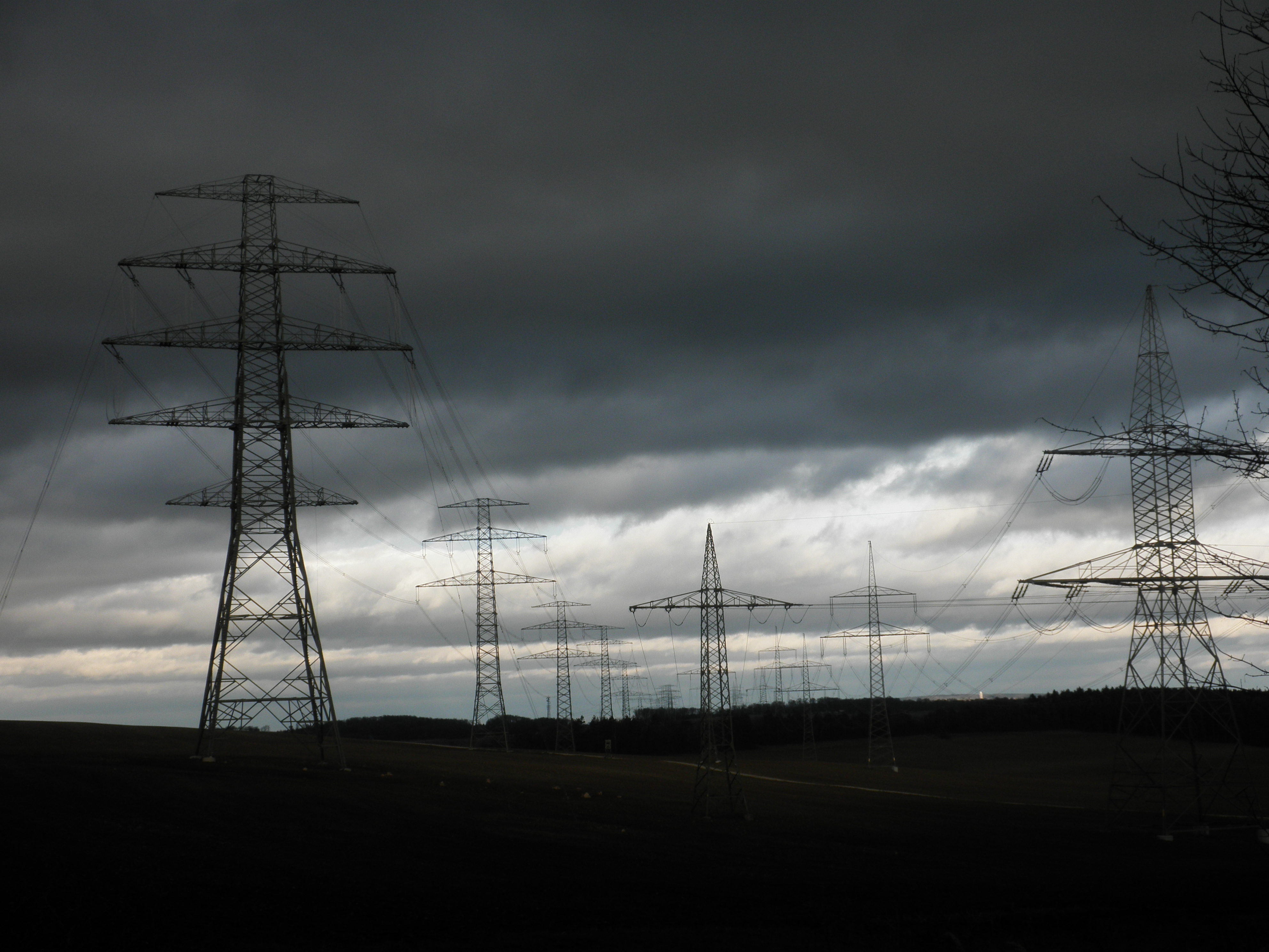 Overhead power lines in Klettbach north of Riechheimer Berg in Thuringia, Germany